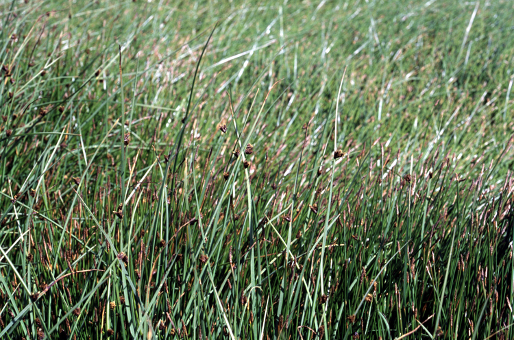 Schoenoplectus americanus at Humboldt Bay National Wildlife Refuge Complex, California, USA